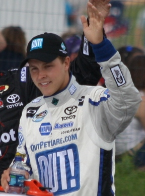 NASCAR driver Trevor Bayne during driver introductions at the 2010 Bucyros 200 the first Nationwide Series race at Road America.